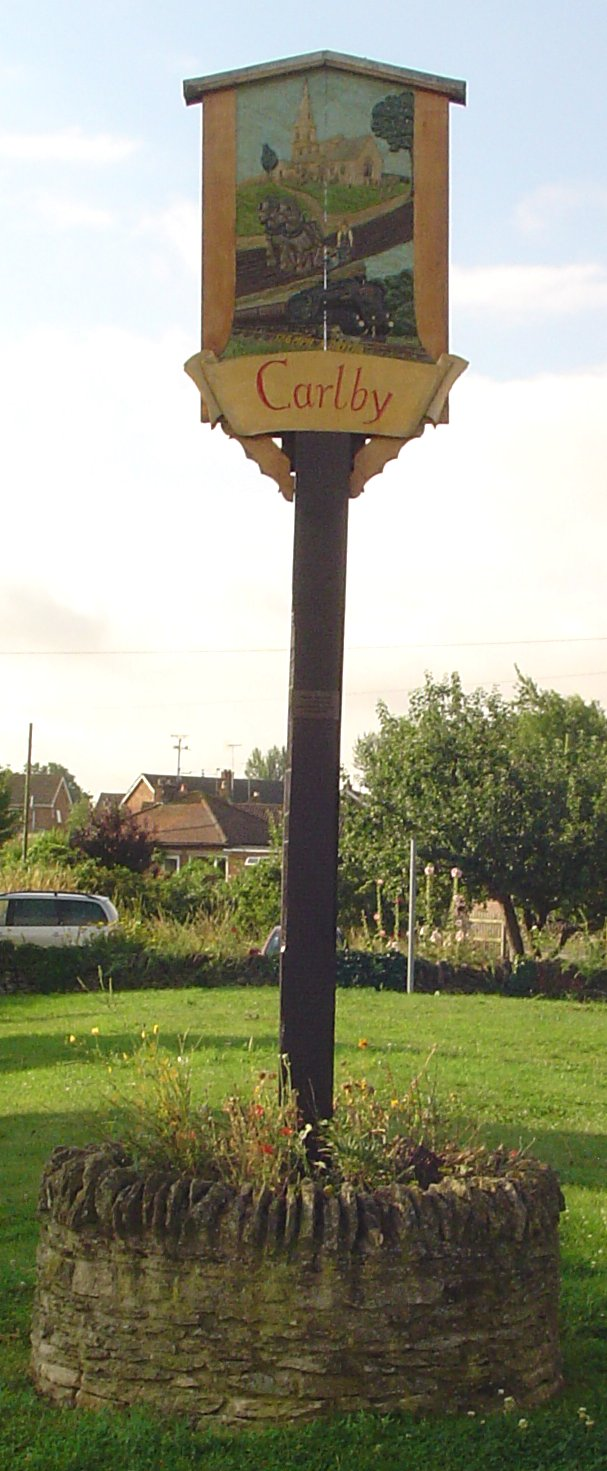 Signpost in Carlby